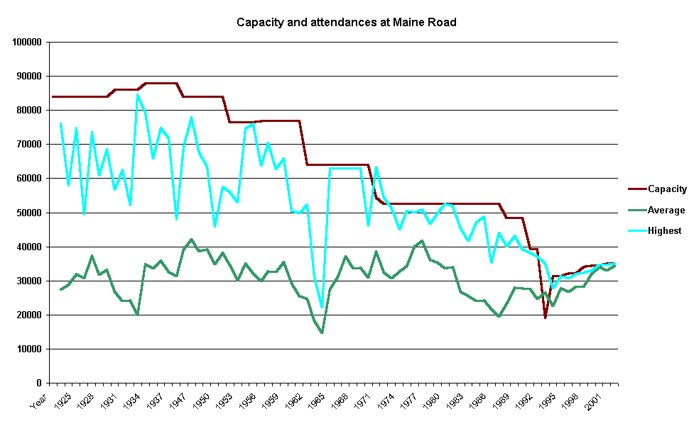 Graph of attendances for Manchester City matches at Maine Road, source data from Gary James "Manchester City: The Complete Record" and . Capacity values are at season end, the values where highest attendance exceeds capacity are due to changes in capacity mid-season, and are not anomalous. Averages include League matches only.